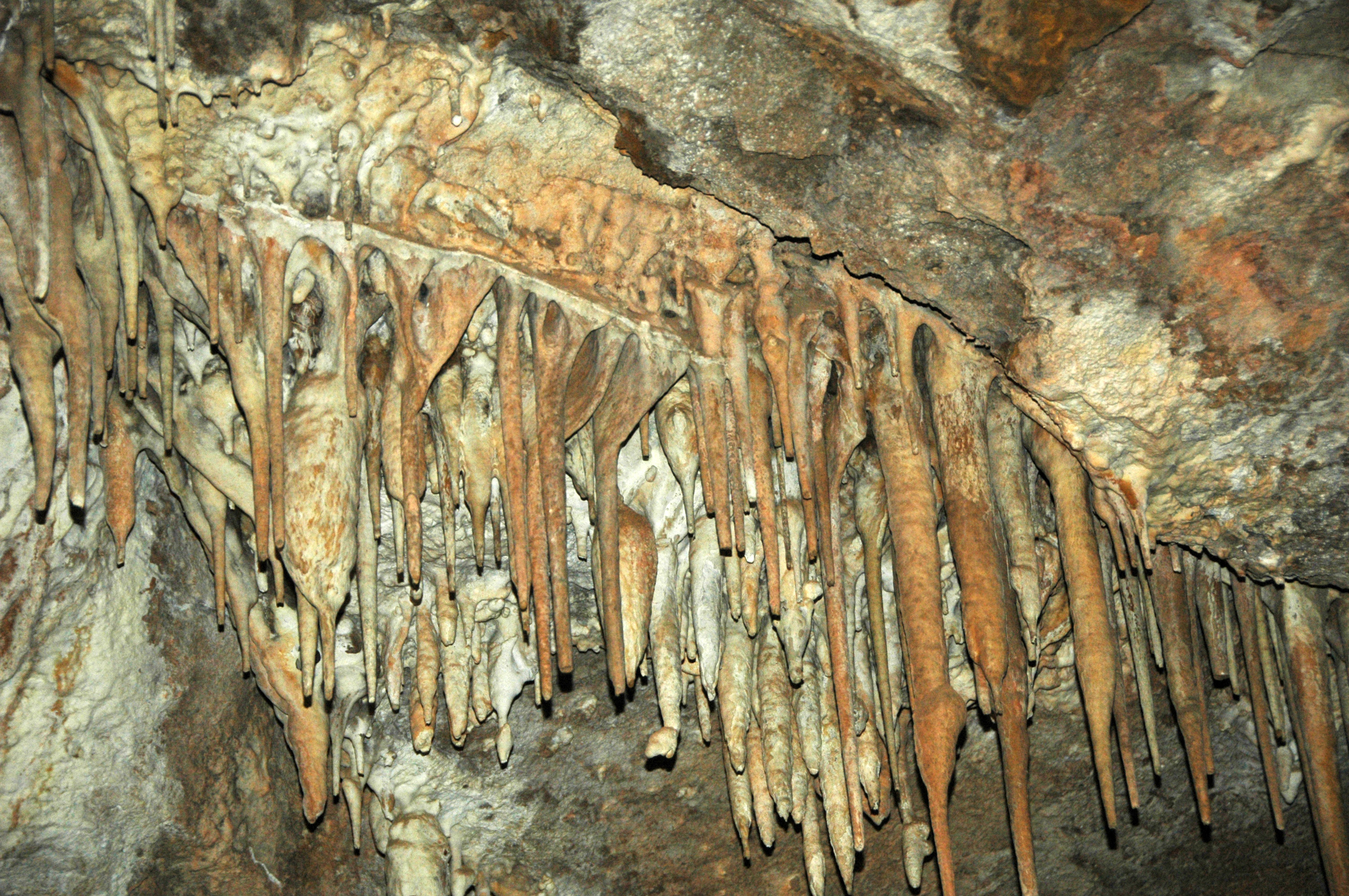 017 Stalactites & draperies 2